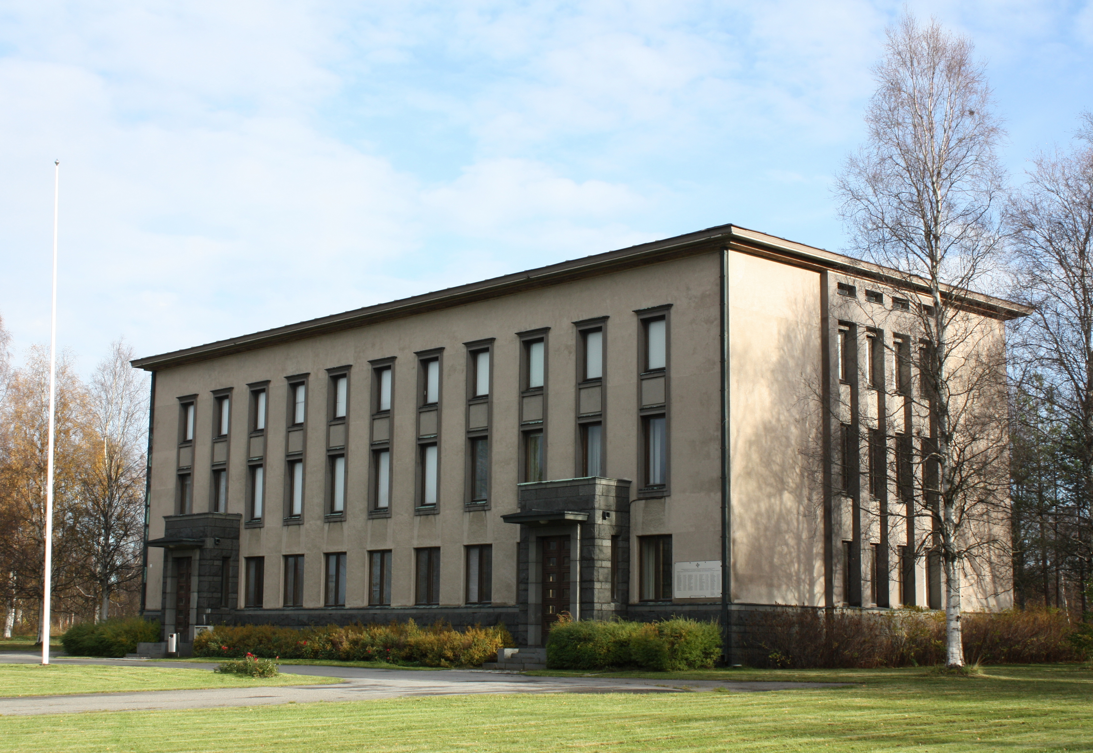 The headquarters of the former Kemi Oy pulp mill in Kemi, Finland. The building was completed in 1936 and it was designed by architect W.G. Palmqvist.